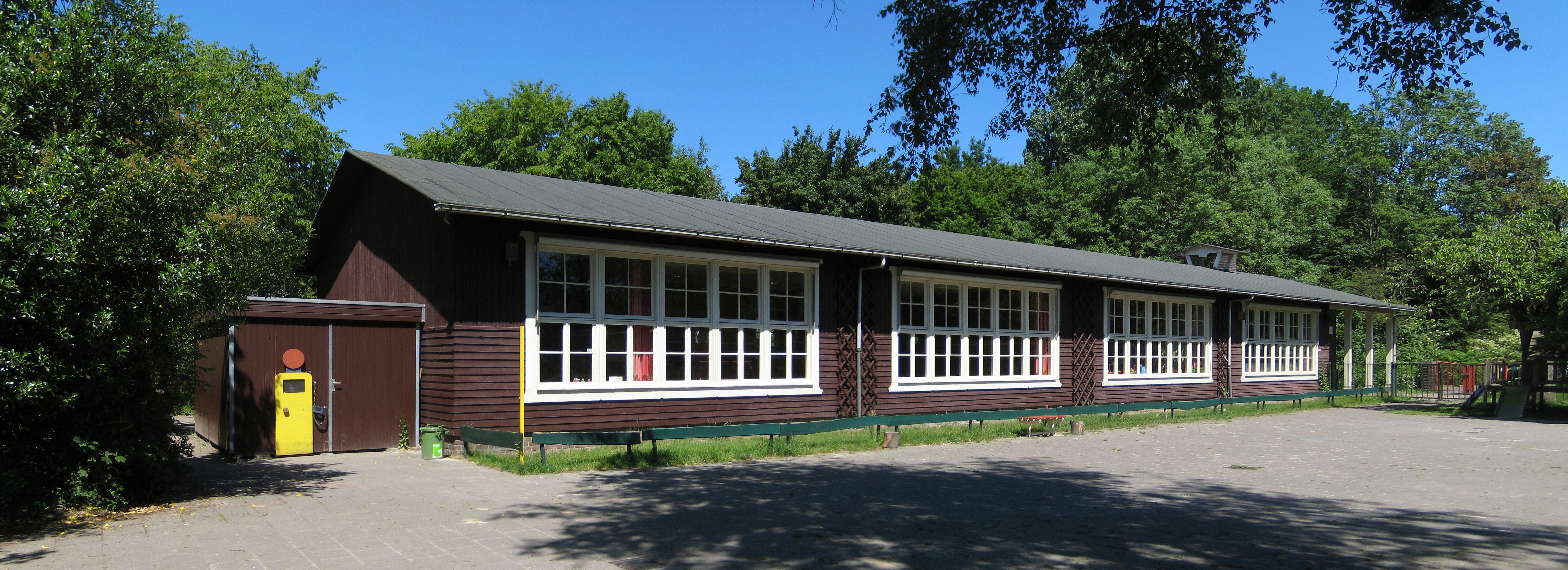 Wooden school (1950) in the Dutch city of Groningen.